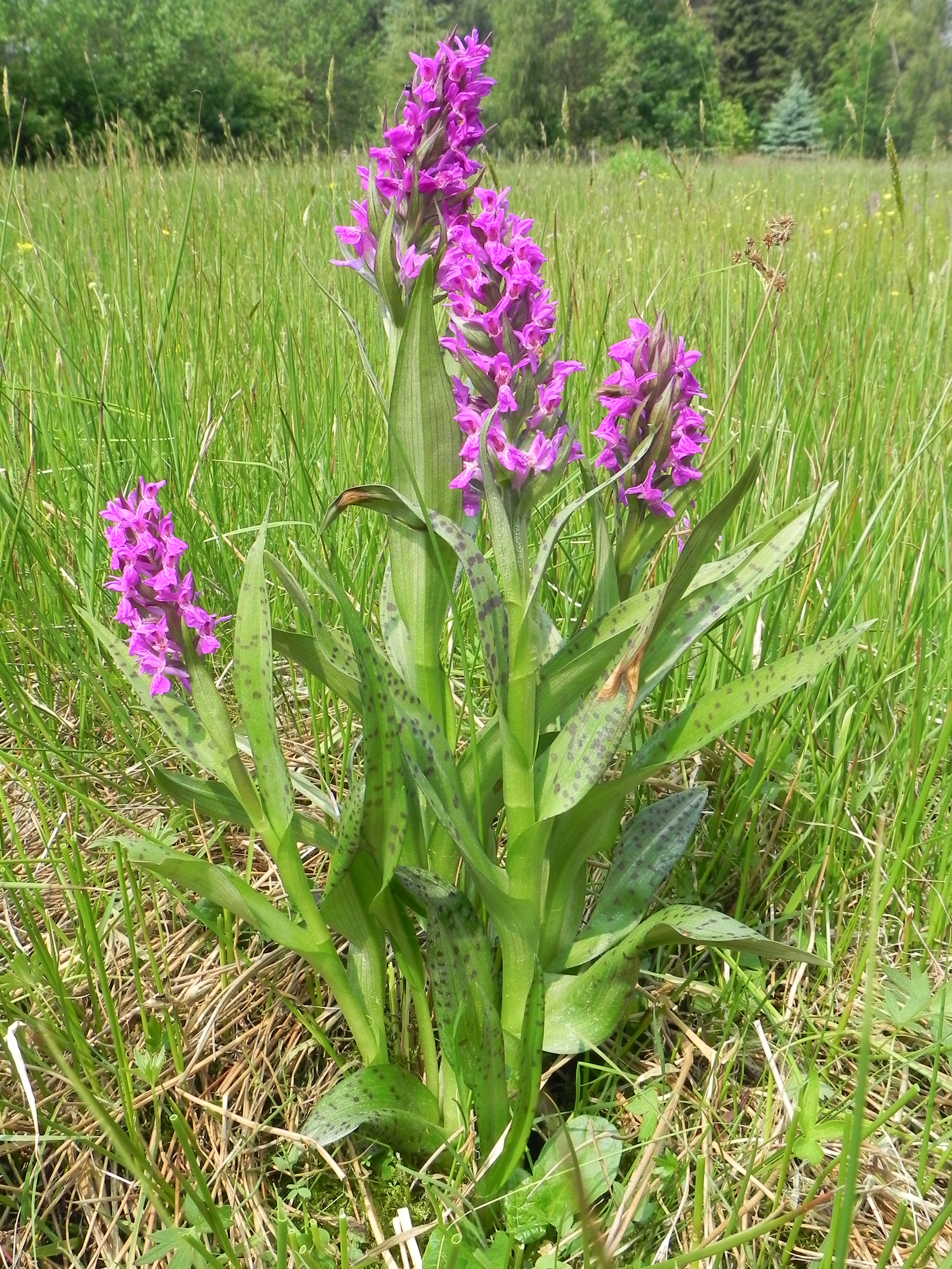 Dactylorhiza majalis near Hermannsburg, Lüneburg Heath, Lower Saxony, Germany